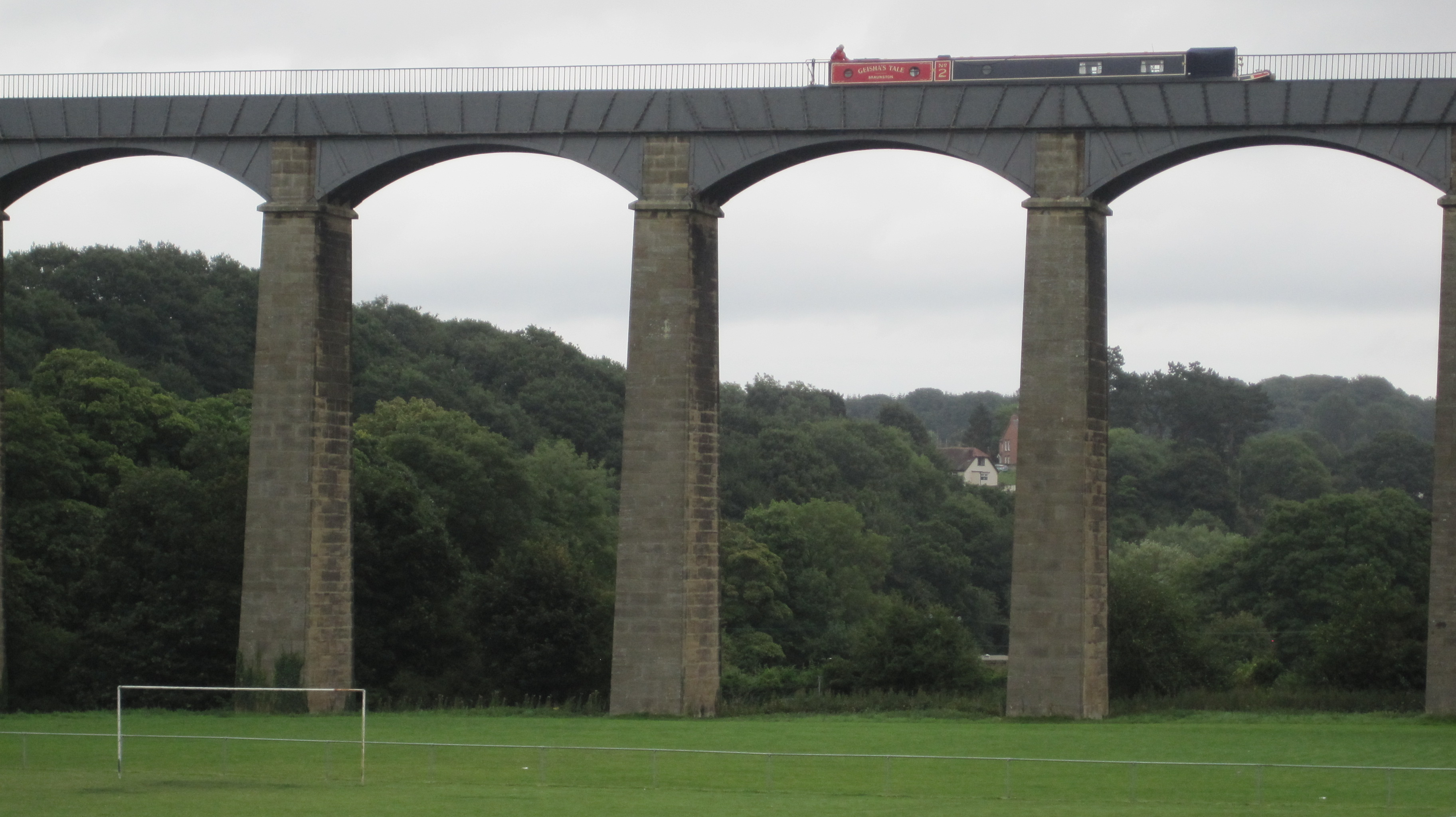 Pontcysyllte Aqueduct, Wrexham, image taken on the east bank of the Dee River.